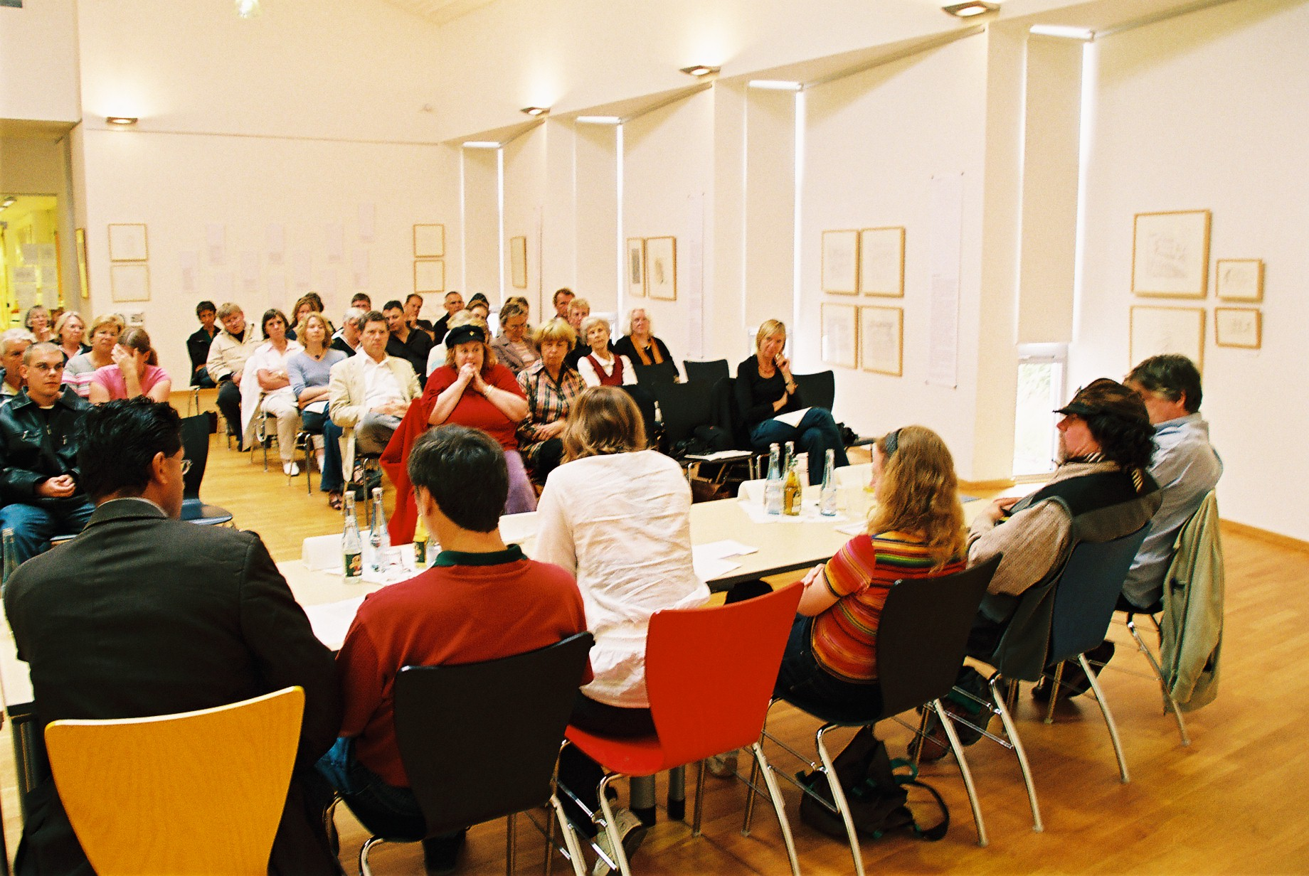 Writers are reading texts during the exhibition "gedankenschwer und federleicht" in "Haus Kannen" (10.08.08, Münster, Germany)